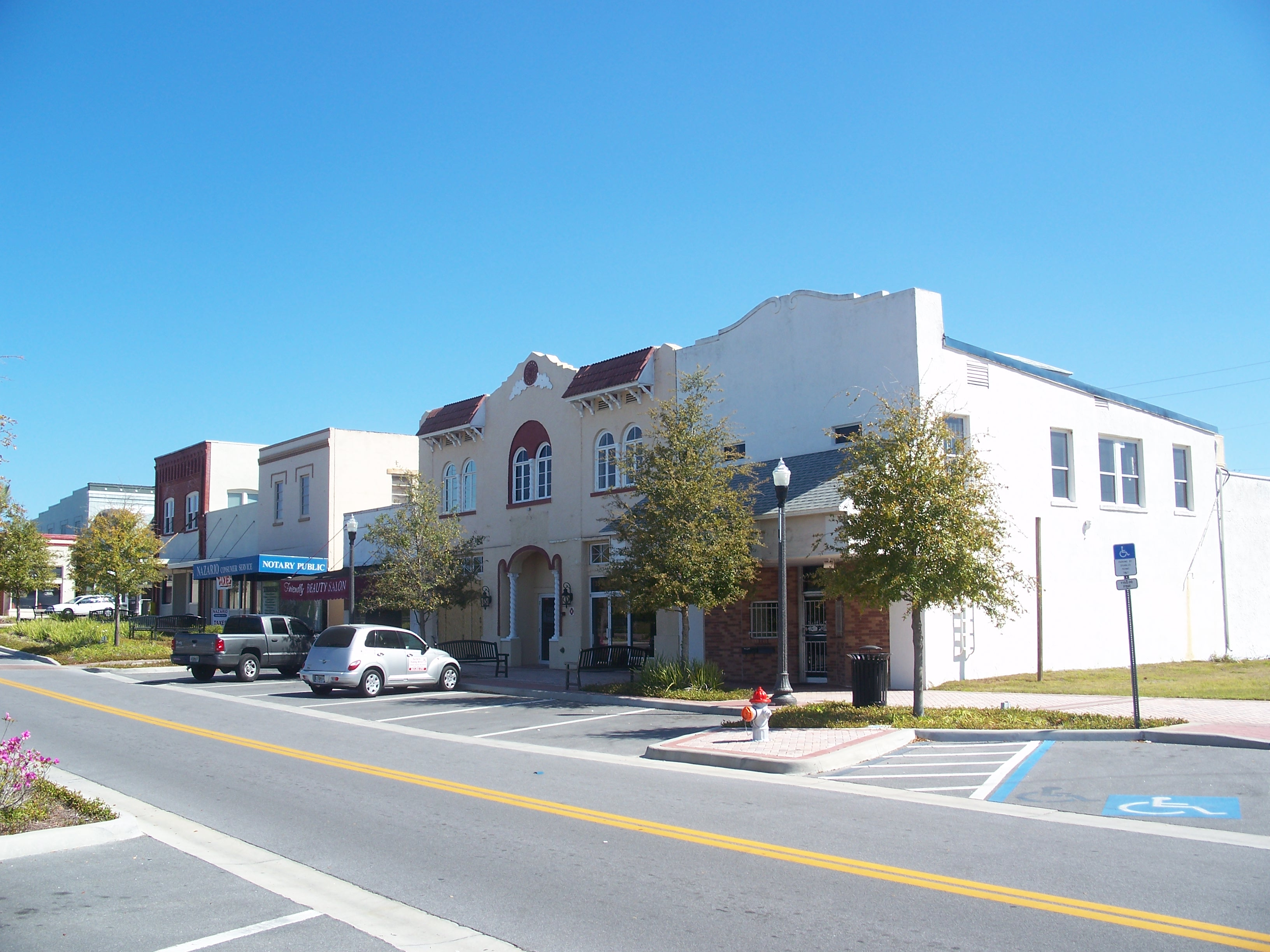 Haines City, Florida: Downtown Haines City Commercial District